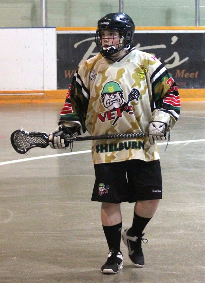 These images of Ontario Junior C Lacrosse Action action during the 2015 season are taken by Devan Mighton.